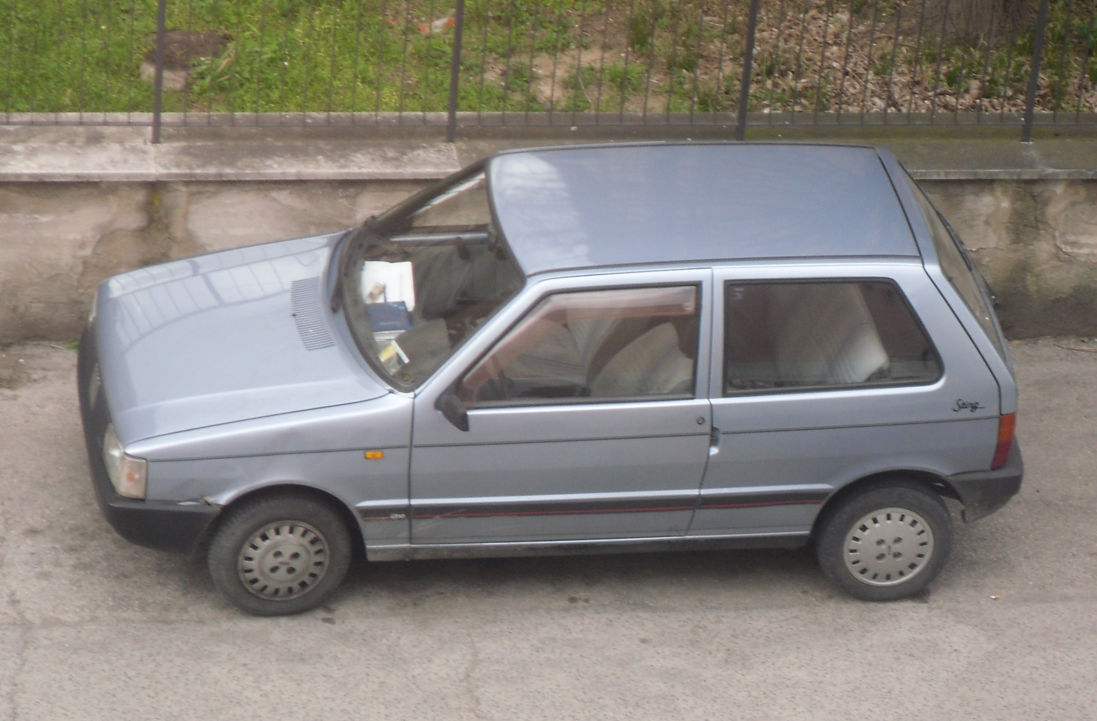 Top view of a Fiat Uno Sting mk1